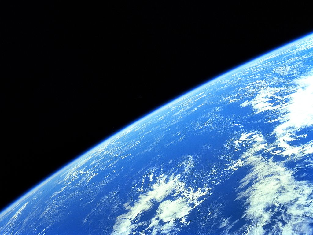 A Computer Generated photo of what the Earth would look like from high orbit.